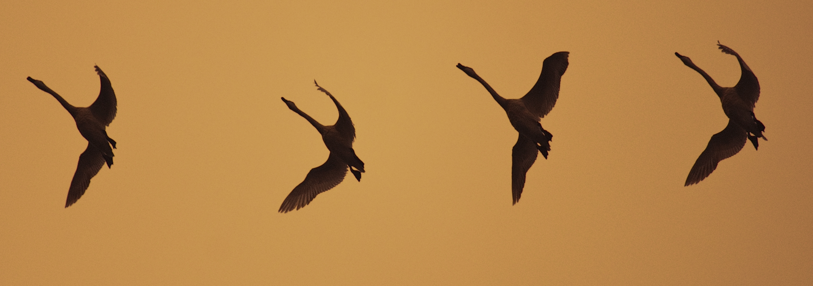 A_flock_of_Mute_Swans_(Cygnus_olor)_in_flight_Kerkini_Lake This is a photography of Natura 2000 protected area with ID GR1260008